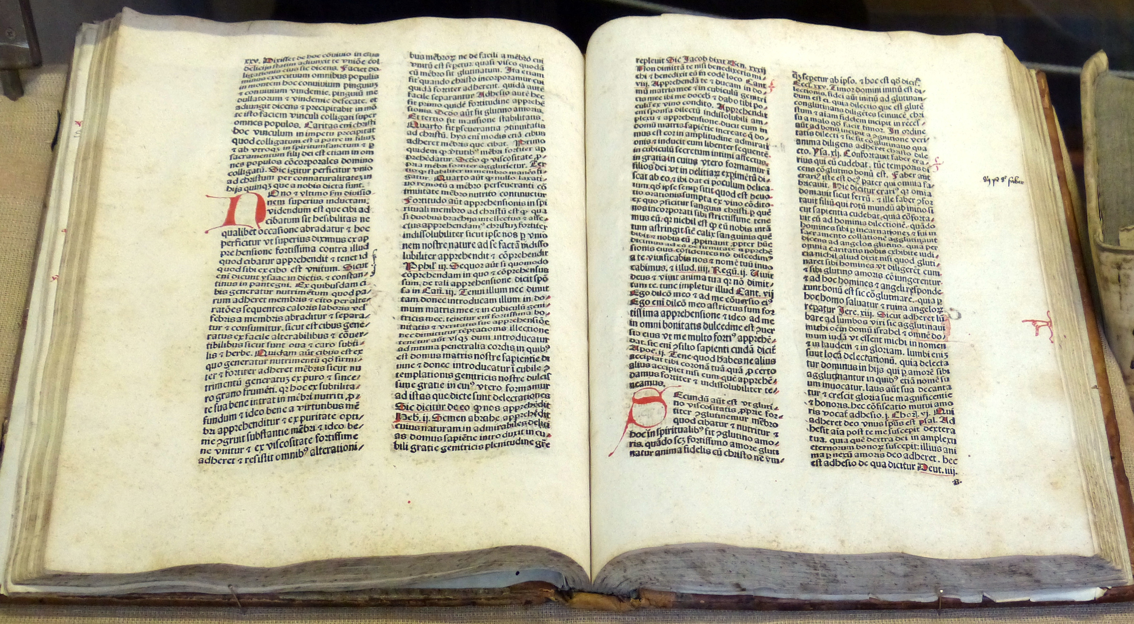 Vimperk ( Czech Republic ), Castle museum: "Summa Eucharistia" by Albertus Magnus, printed in 1484 by John Alacraw in Vimperk.